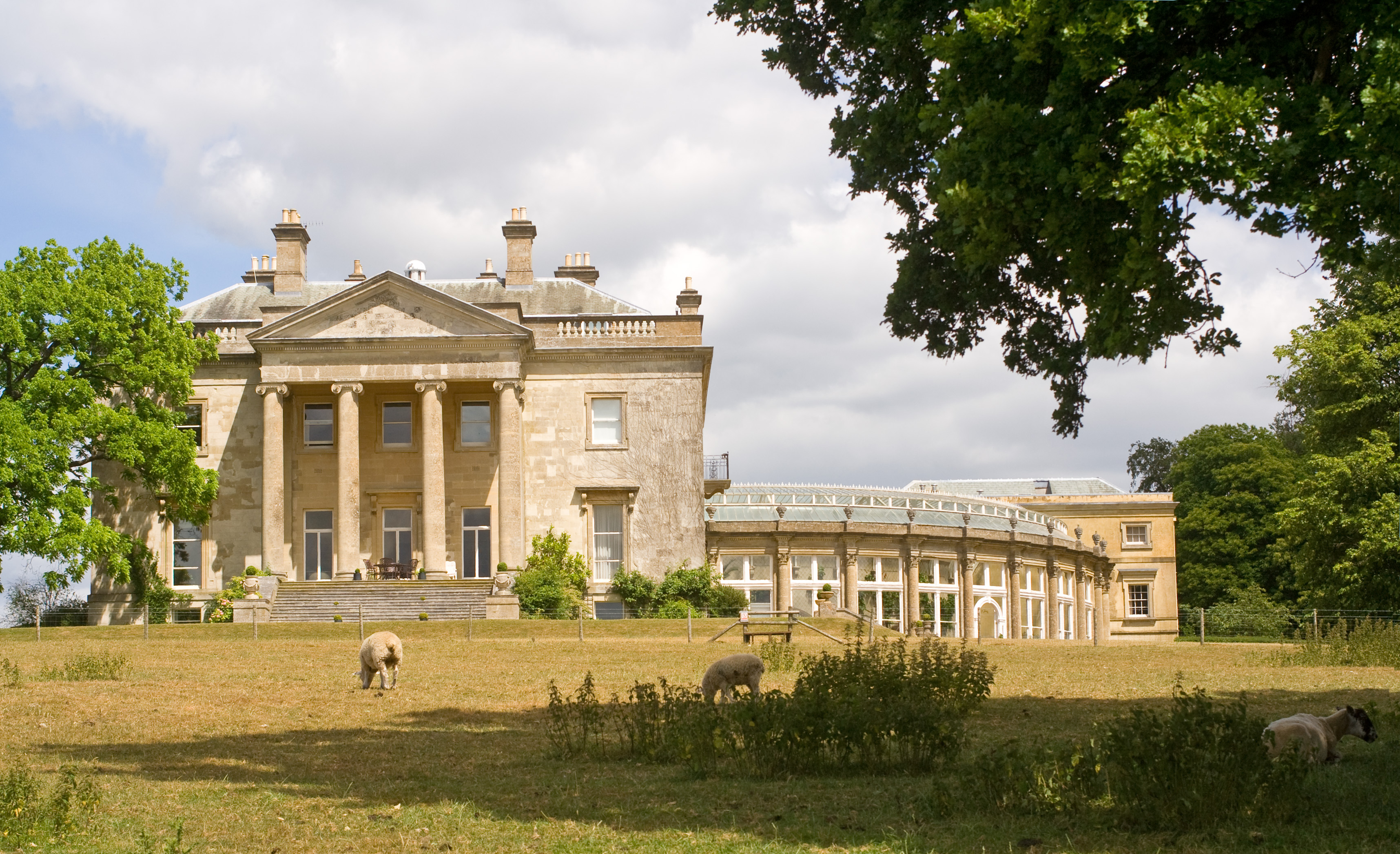 Gaddesden Place. Gaddesden Place is a private dwelling as well as providing office accommodation to two companies. It is a popular site as film location.